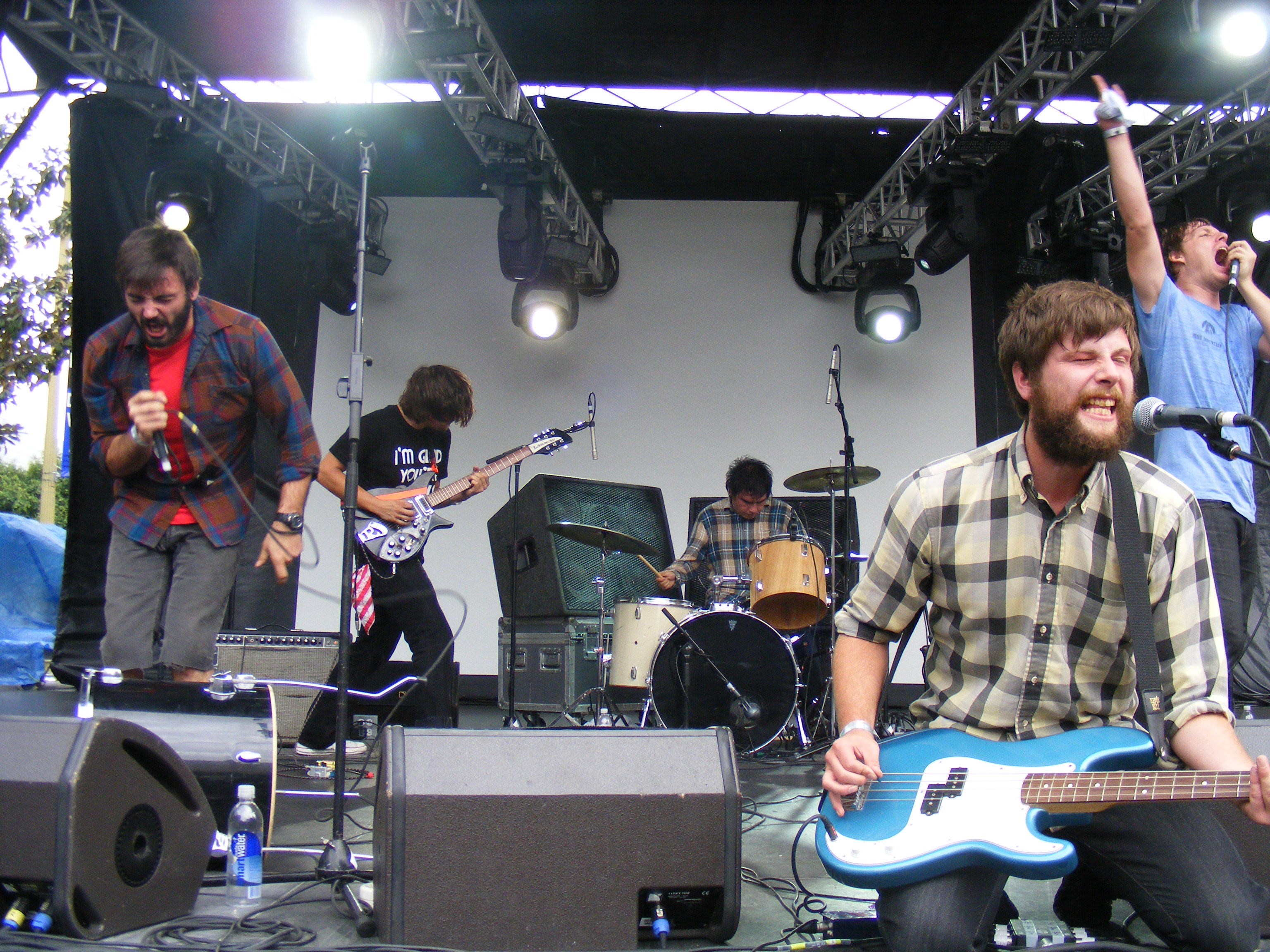 The Mae Shi performing at the Detour Festival in downtown Los Angeles, October 4th, 2008.